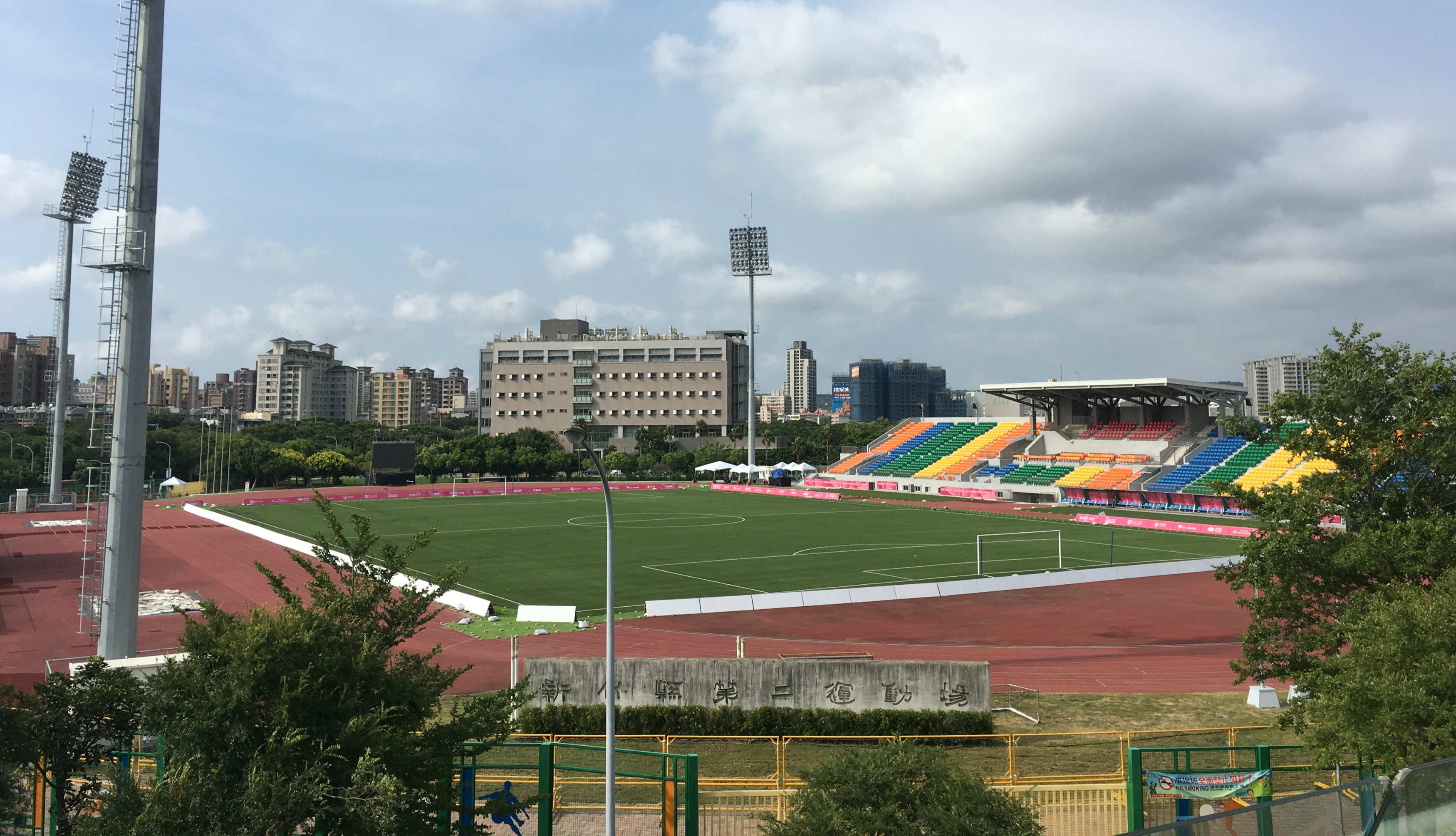 The 2017 Summer Universiade (2017年夏季世界大學運動會) football field, located for Hsinchu County Second Stadium in Zhubei City, Hsinchu County, Taiwan.